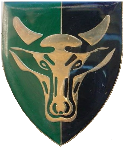 SADF 117 SA Battalion shoulder flash version 2